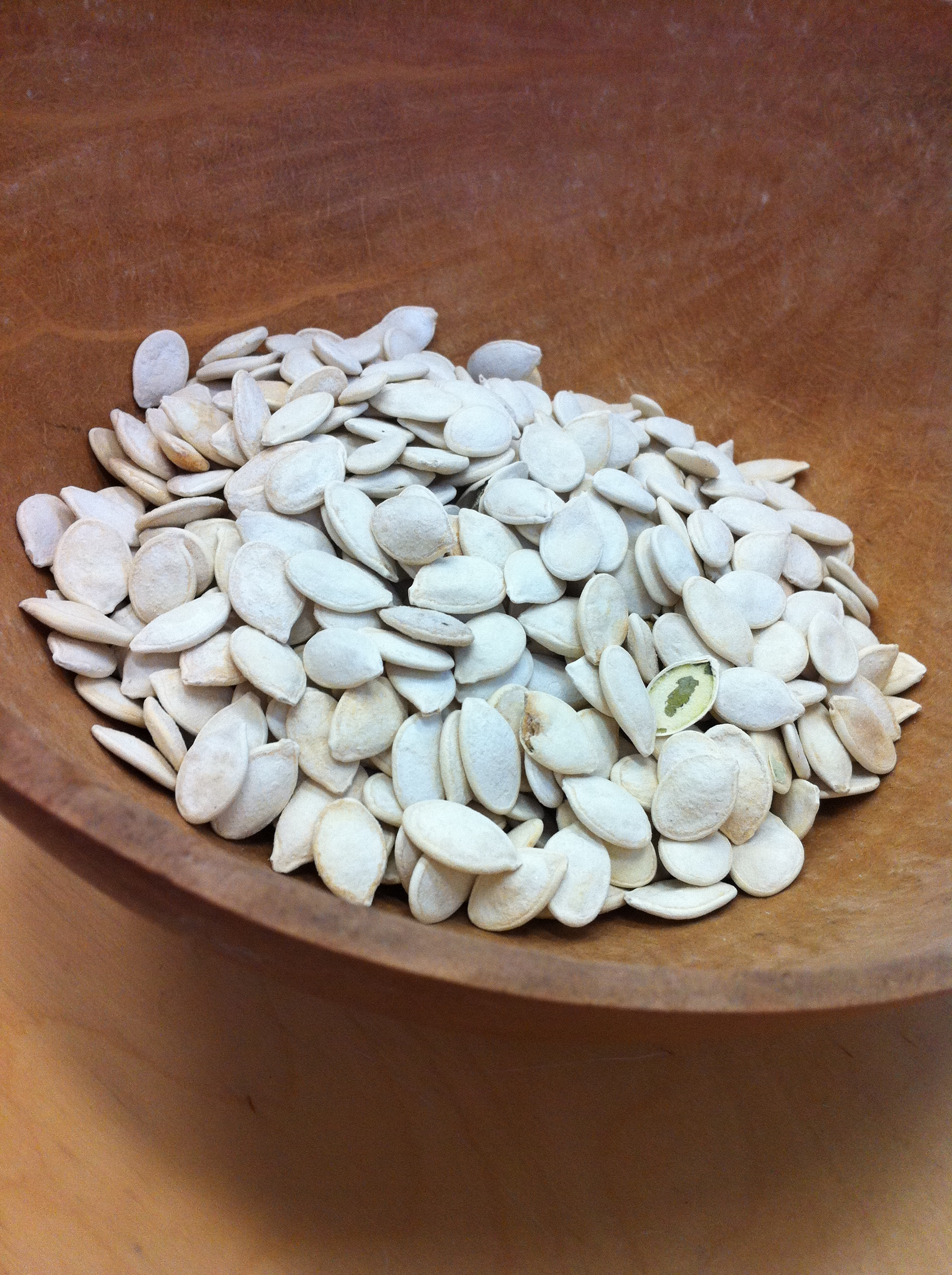 Salted pumpkin seeds